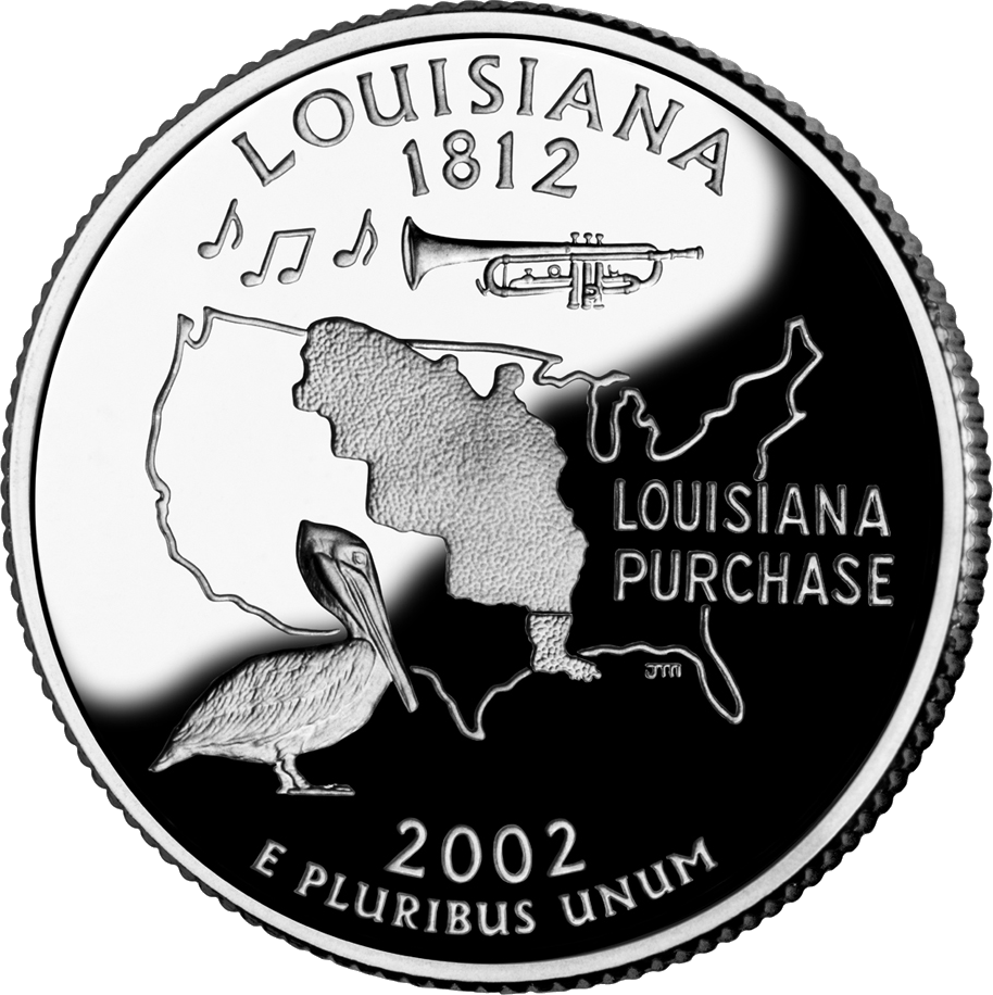 Removed background, cropped, and converted to PNG with Macromedia Fireworks. This image depicts a unit of currency issued by the United States of America. If Fraudulent use of this image is punishable under applicable counterfeiting laws. As listed by the United States Secret Service at money illustrations, the Counterfeit Detection Act of 1992, Public Law 102-550, in Section 411 of Title 31 of the Code of Federal Regulations (31 CFR 411), permits color illustrations of U.S. currency provided:1. The illustration is of a size less than three-fourths or more than one and one-half, in linear dimension, of each part of the item illustrated;2. The illustration is one-sided; and3. All negatives, plates, positives, digitized storage medium, graphic files, magnetic medium, optical storage devices, and any other thing used in the making of the illustration that contain an image of the illustration or any part thereof are destroyed and/or deleted or erased after their final use. Certain coins contain copyrights licensed to the U.S. Mint and owned by third parties or assigned to and owned by the U.S. Mint [1]. For the United States Mint circulating coin design use policy, see [2]; for the policy on the 50 State Quarters, see [3]. Also: COM:ART #Photograph of an old coin found on the Internet